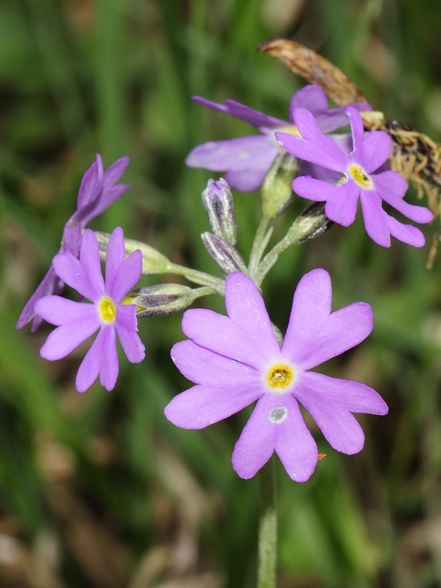 Please report references to .